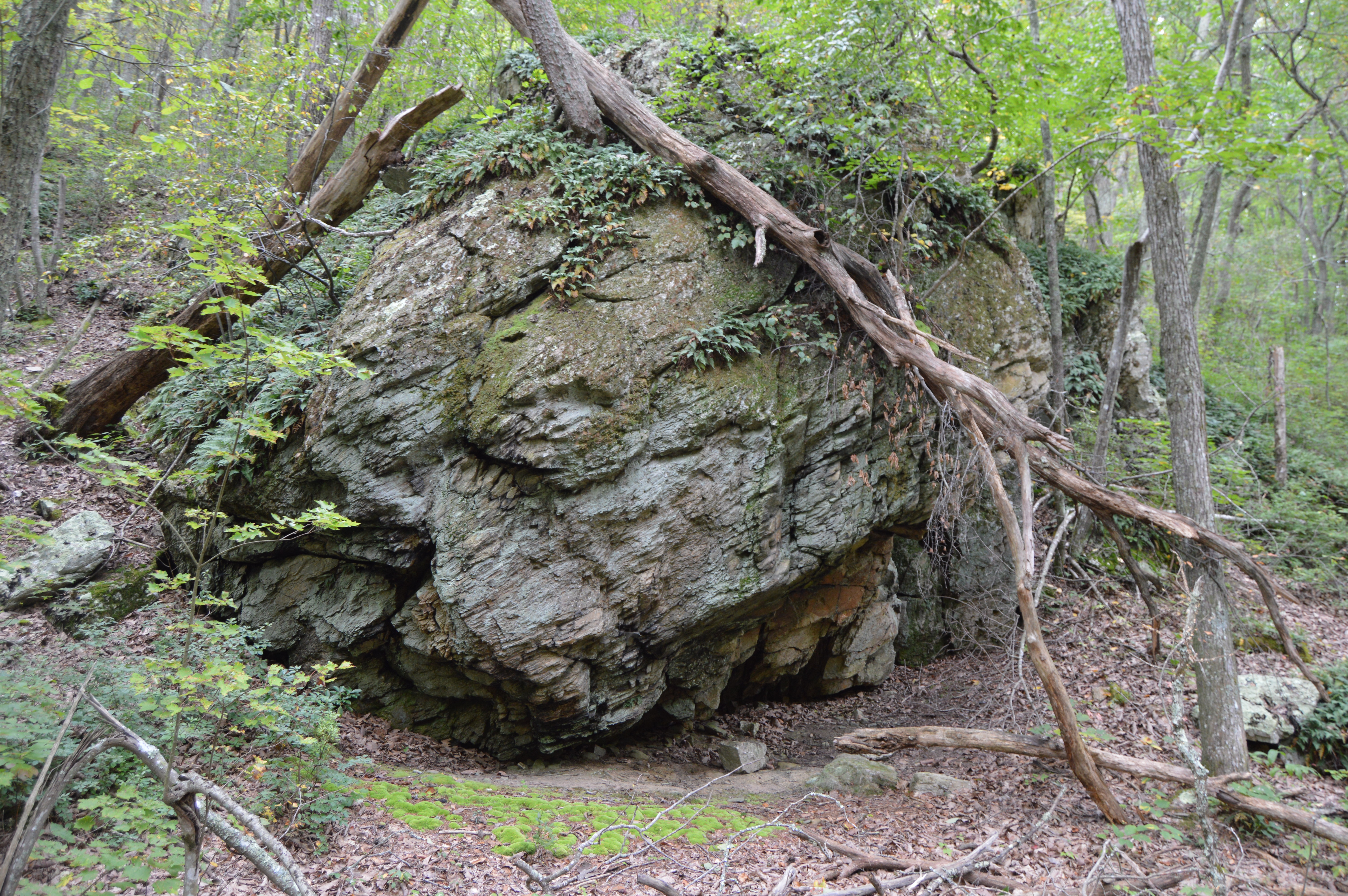 Overview of the Paine Run Rockshelter, located southeast of Harriston in the Augusta County portion of Shenandoah National Park in the U.S. state of Virginia. The rockshelter (apparently partly collapsed since the 1970s, is an important archaeological site and has been listed on the National Register of Historic Places.